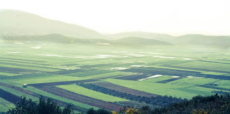 marg-sanor